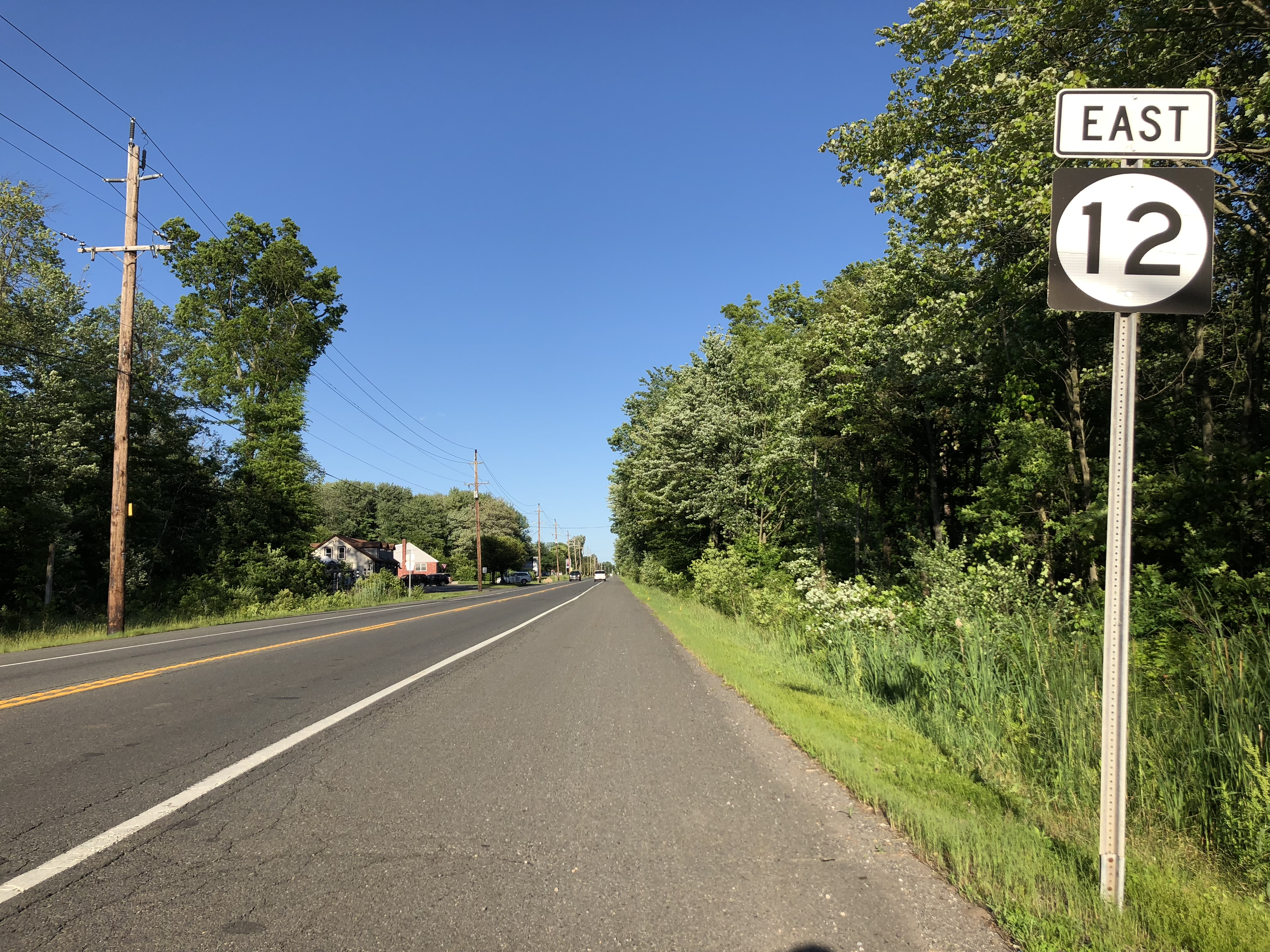 View east along New Jersey State Route 12 (Frenchtown-Flemington Road) just east of Hunterdon County Route 579 (Croton Road/Easton-Trenton Turnpike) in Raritan Township, Hunterdon County, New Jersey